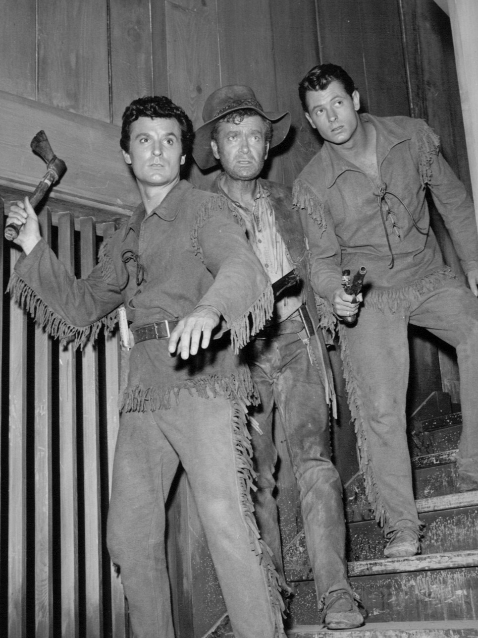 Photo of the cast of Northwest Passage (TV series). From left: Keith Larsen, Buddy Ebsen and Don Burnett.